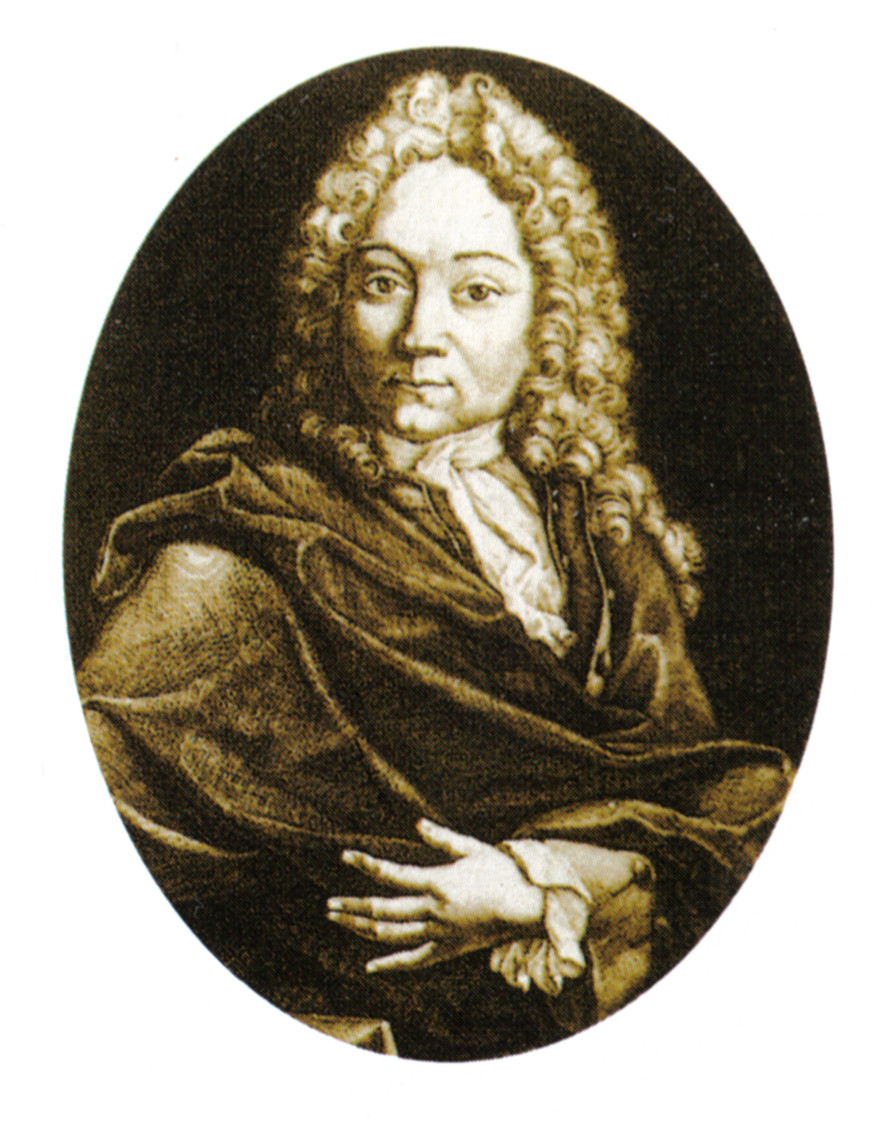 self-portrait of Johann Adam Delsenbach with an age of 28 years. Copperplate from 1715